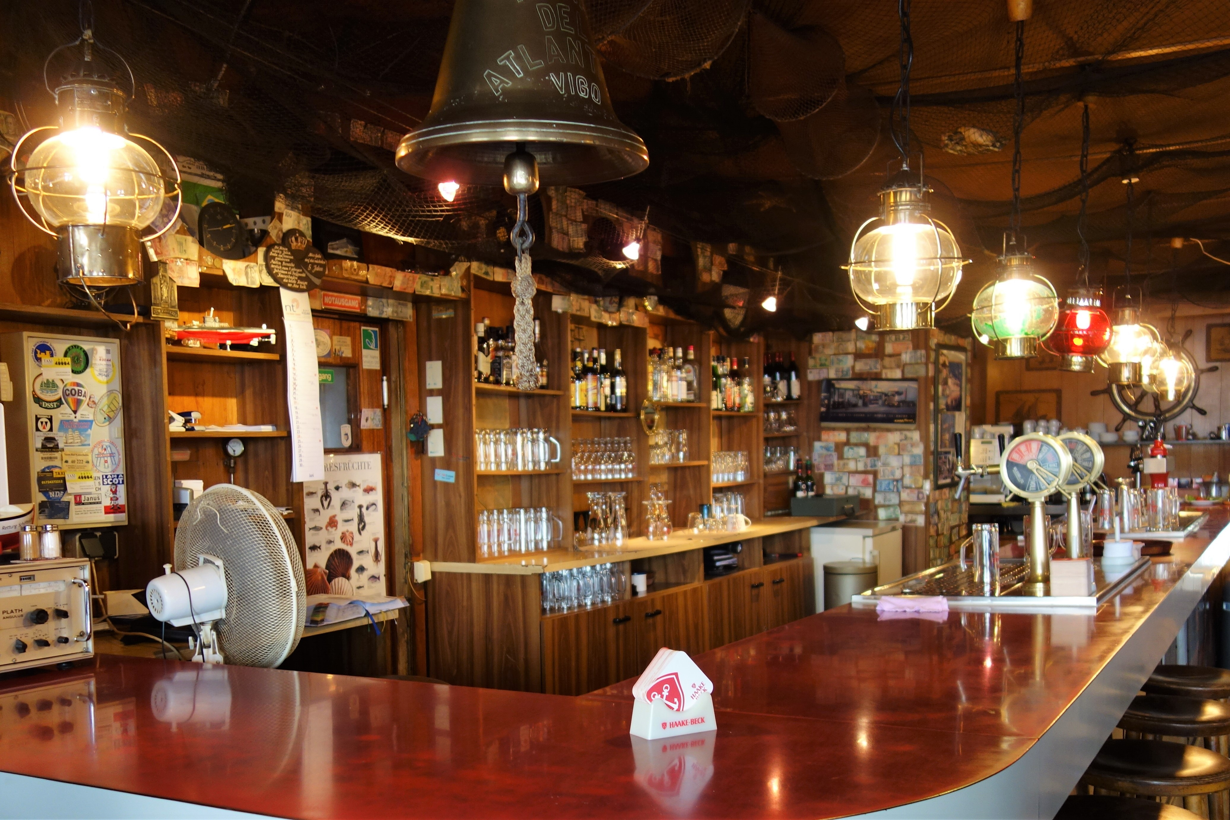 Bar counter of Treffpunkt Kaiserhafen, known as „Die letzte Kneipe vor New York“